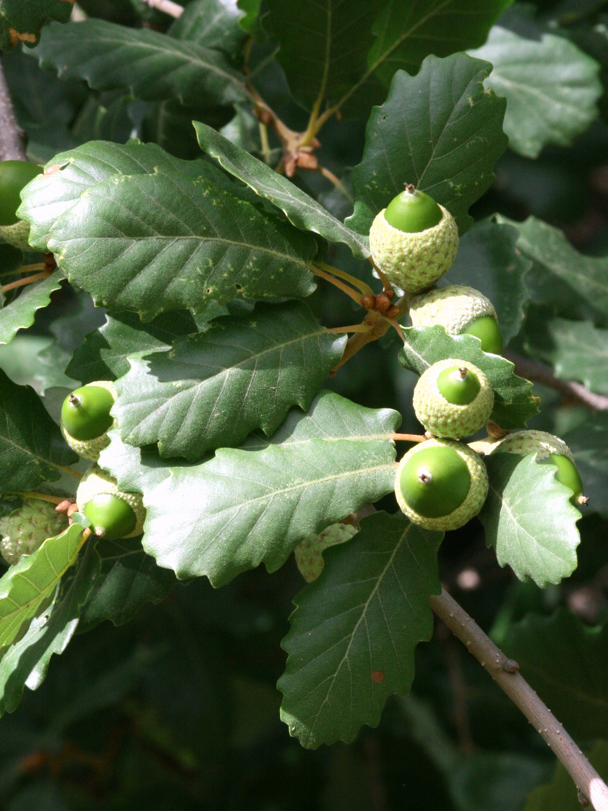 Quercus faginea, Arboretum in Brno, Czech Republic